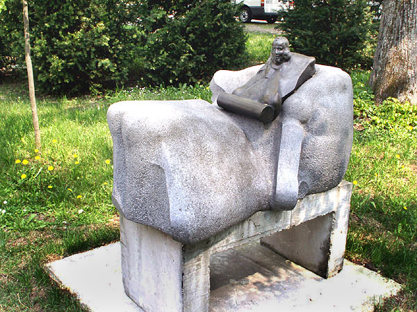 Centre of Polish Sculpture - Oronsko, Adolf Ryszka, Sarkophag, 1986